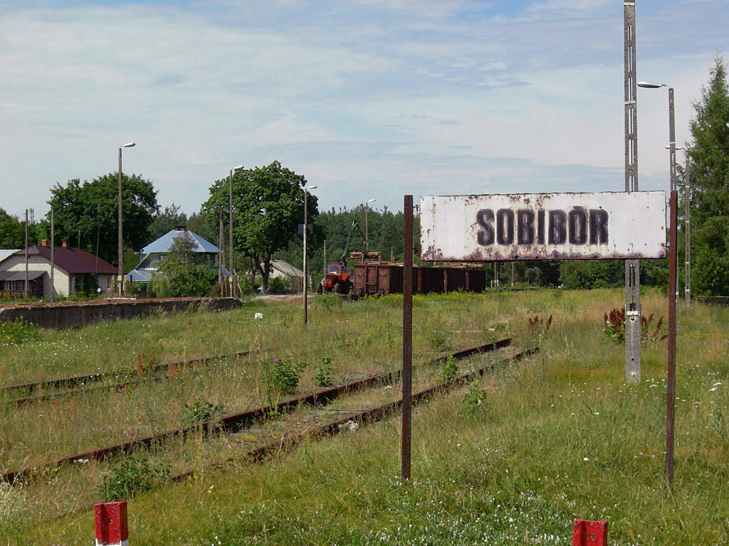 Historic sign at the railway spur in Sobibor. Compare with present-day sign of the Sobibor Station at the Internet Archive.